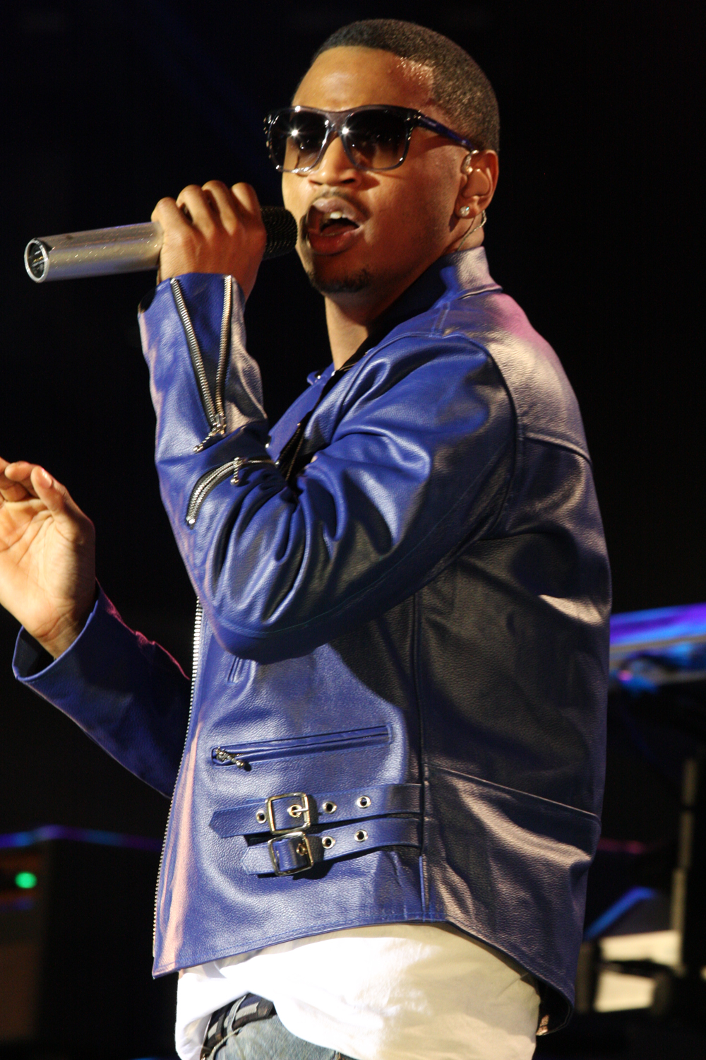 Trey Songz Performs at Supafest 3 Sydney, Australia 2012.